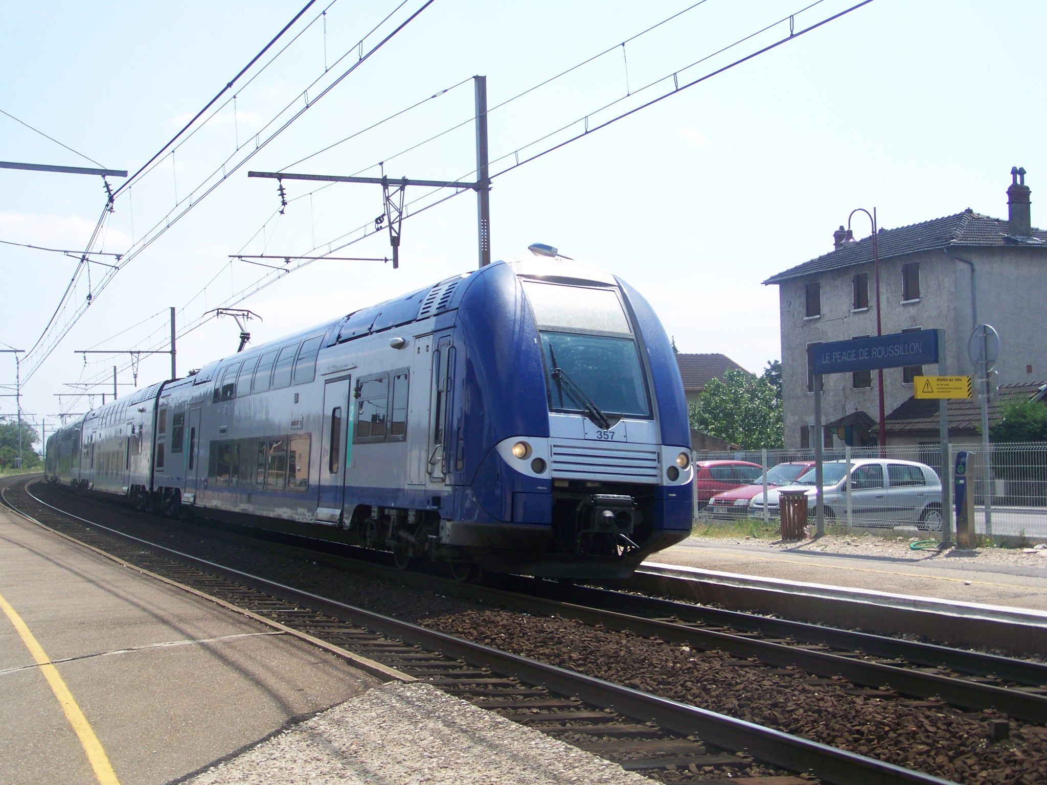 A French regional train coming from Valence (Drôme) and bound for Lyon is stopping at Le Péage de Roussillon station, in Isère.